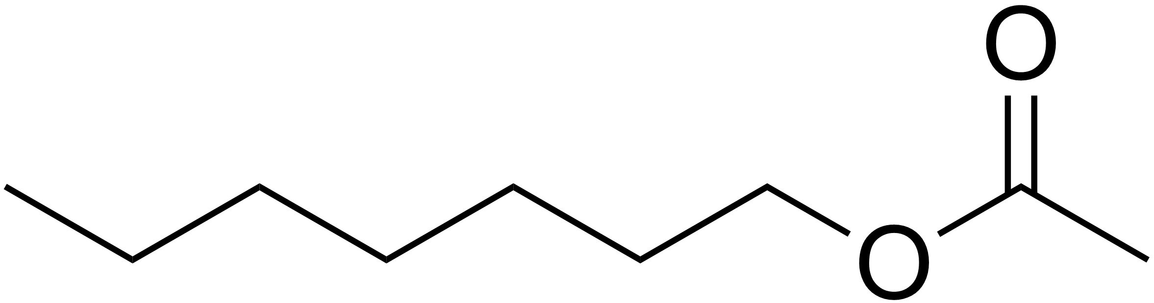 chemical structure of heptyl acetate